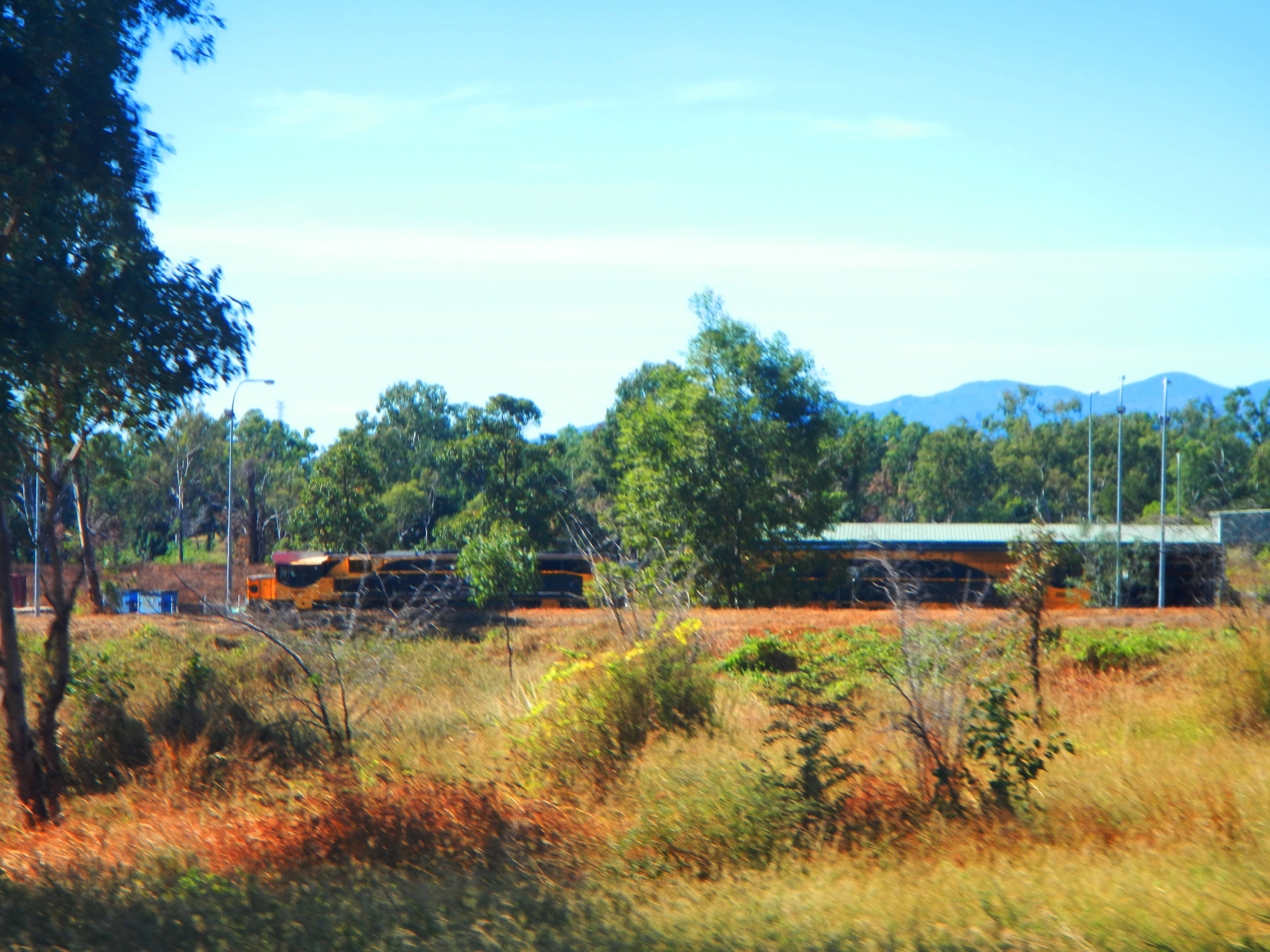 Locomotive waiting on a siding on the Edge of Townsville